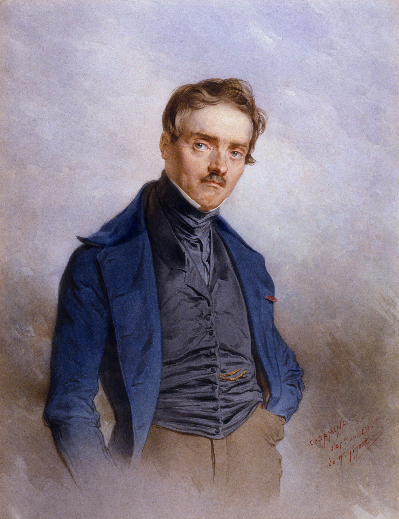 Antoine-Louis Barye watercolour over charcoal underdrawing on slightly textured, moderately thick, cream wove paper after a lithography by J. Gigoux 36.8 x 28 cm signed l.r.: -C-CAMINO- / d'apres une Litography / de J. Gigoux